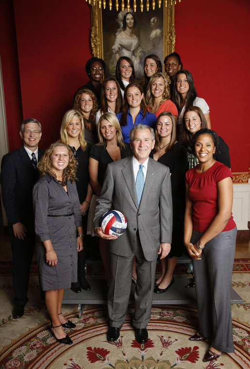 The Pennsylvania State University Nittany Lions women's volleyball team are honored at the White House by President of the United States George W. Bush for the side's winning the 2008 National Collegiate Athletic Association Division I championship.